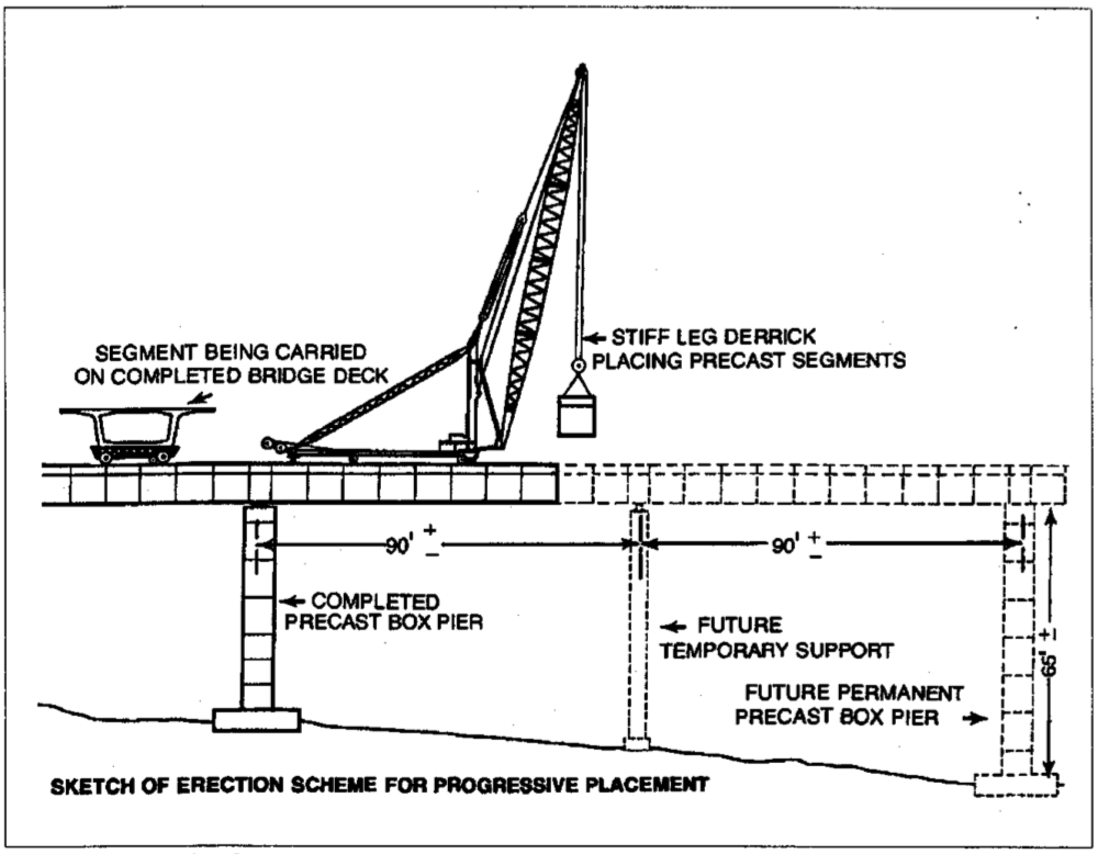 Diagram in the NPS Historic American Engineering Record NC-42-A